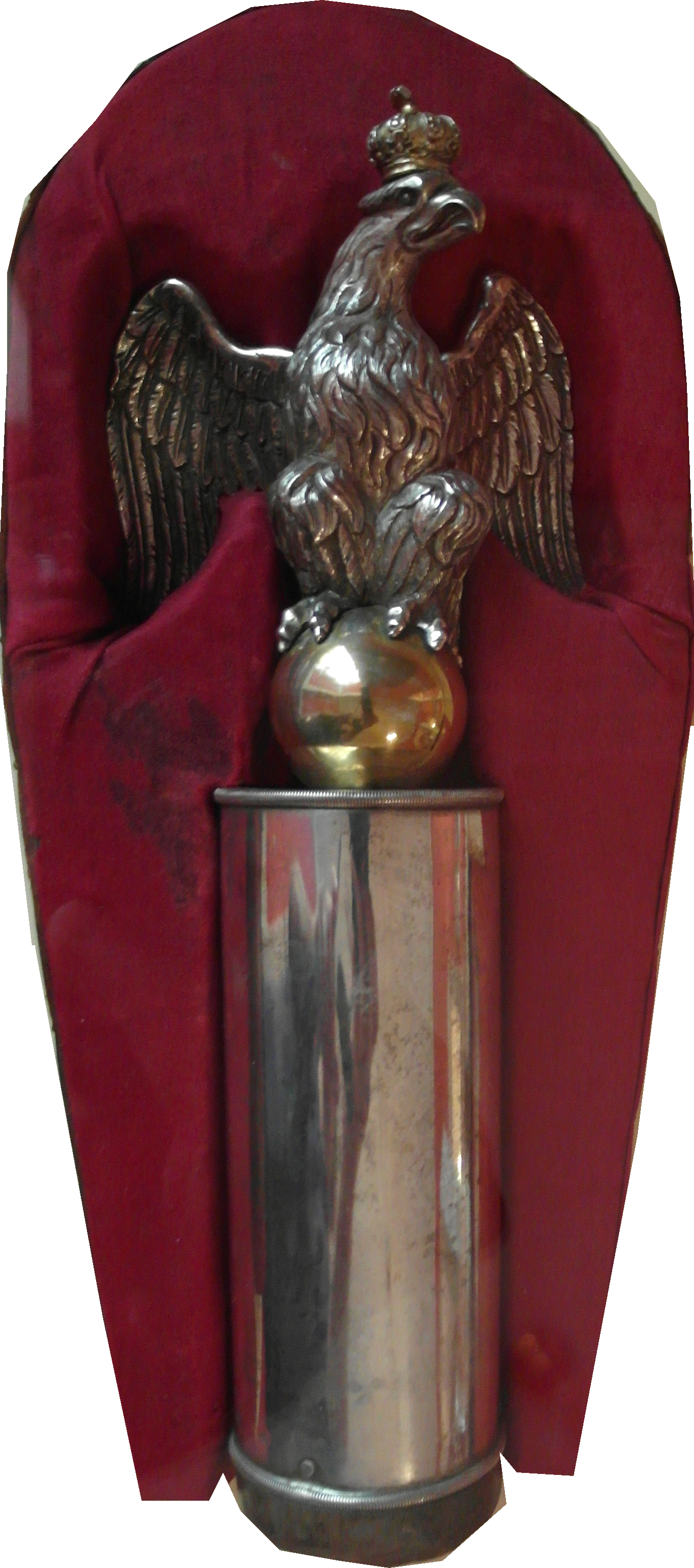 Marshal's staff of Władysław Ostrowski, marshal of the Sejm of the November Uprising